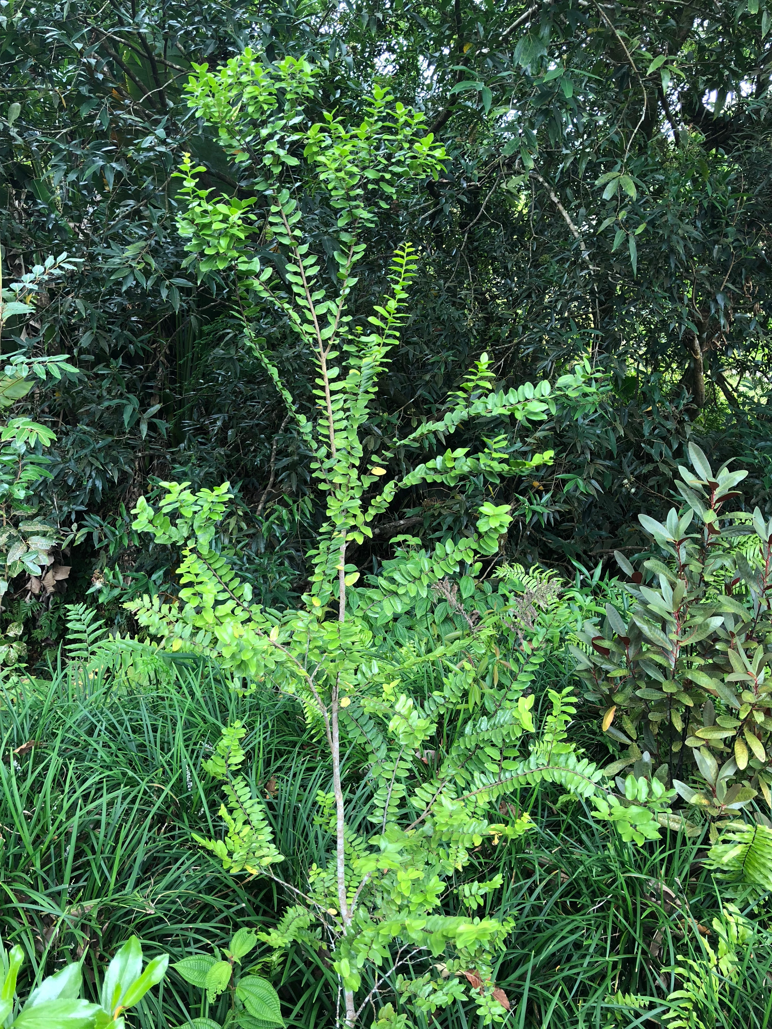 Vallee d'Oosterlog Endemic Gardens - Mauritius - Specimens